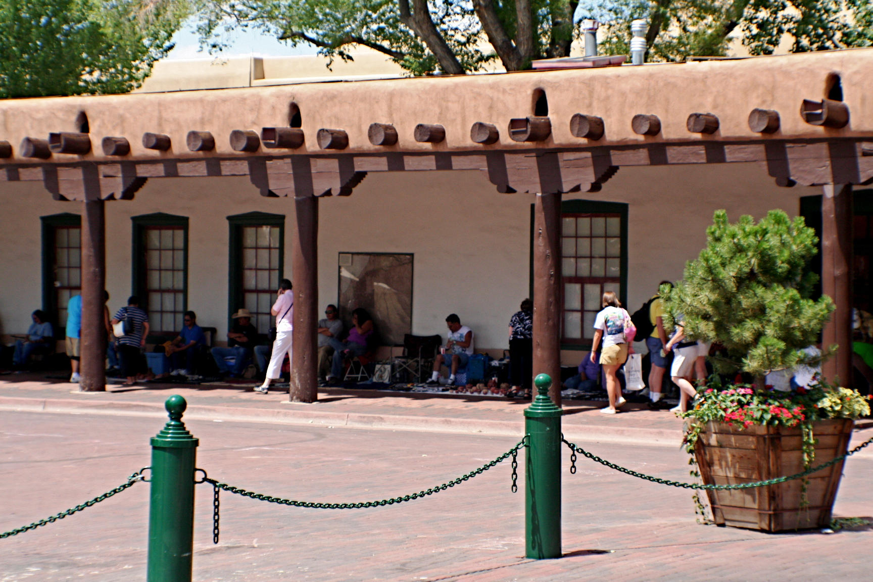 Jewelry sellers in front of the Palace of the Governors in Santa Fe